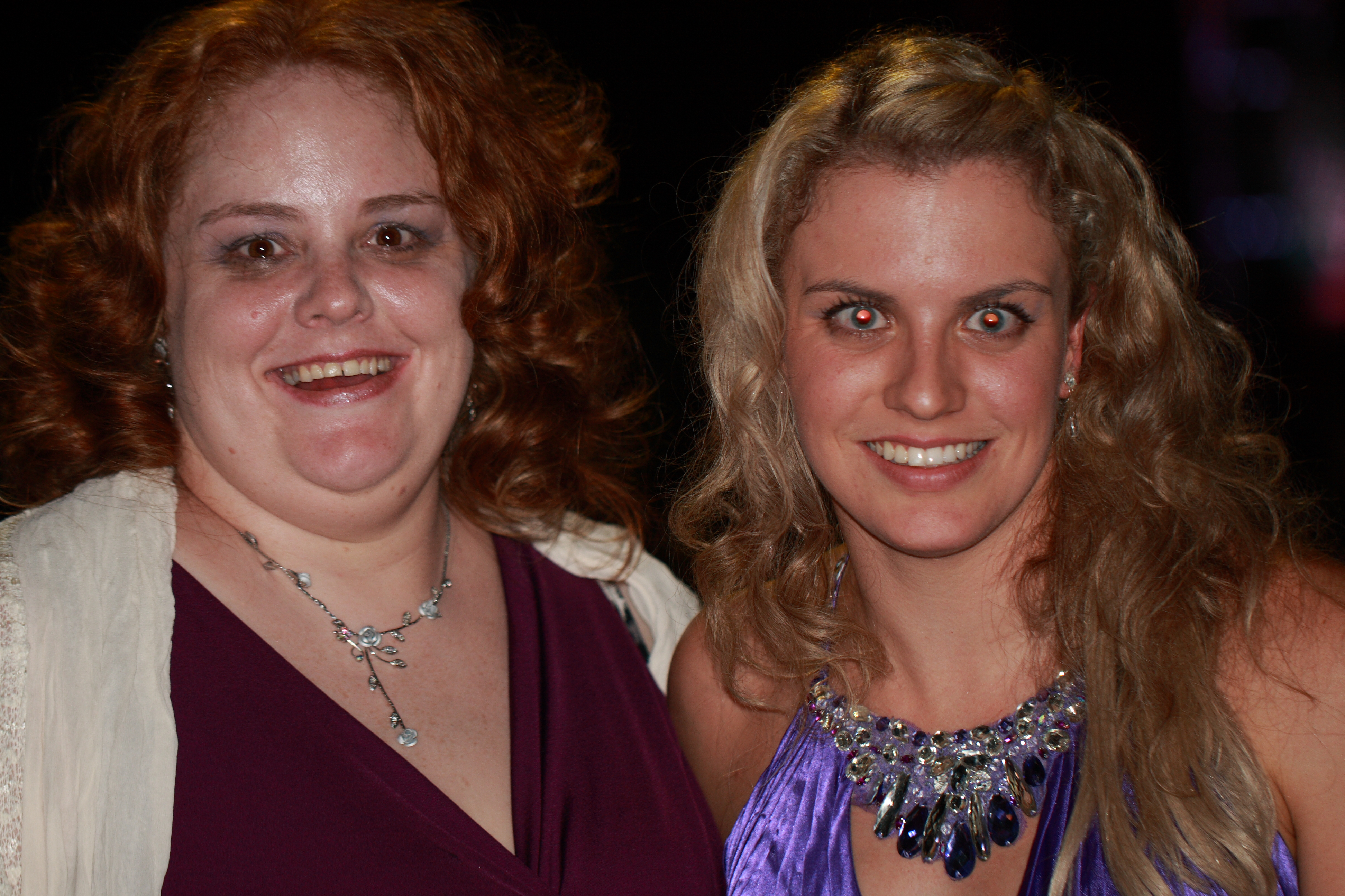 Australian Paralympian of the Year 2012 ceremony at the Hordern Pavilion, Sydney, Australia.